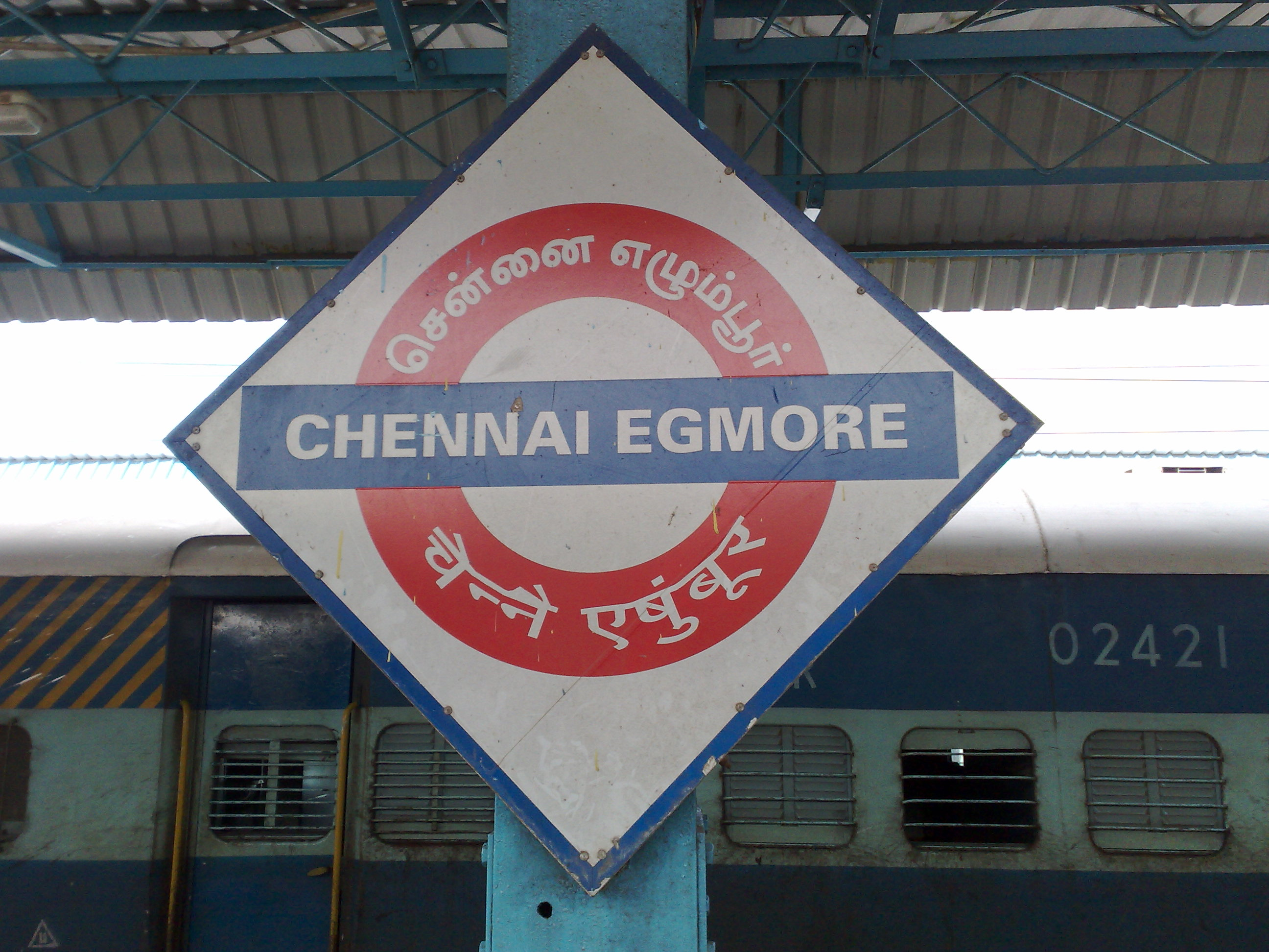 Chennai Egmore - Platformboard